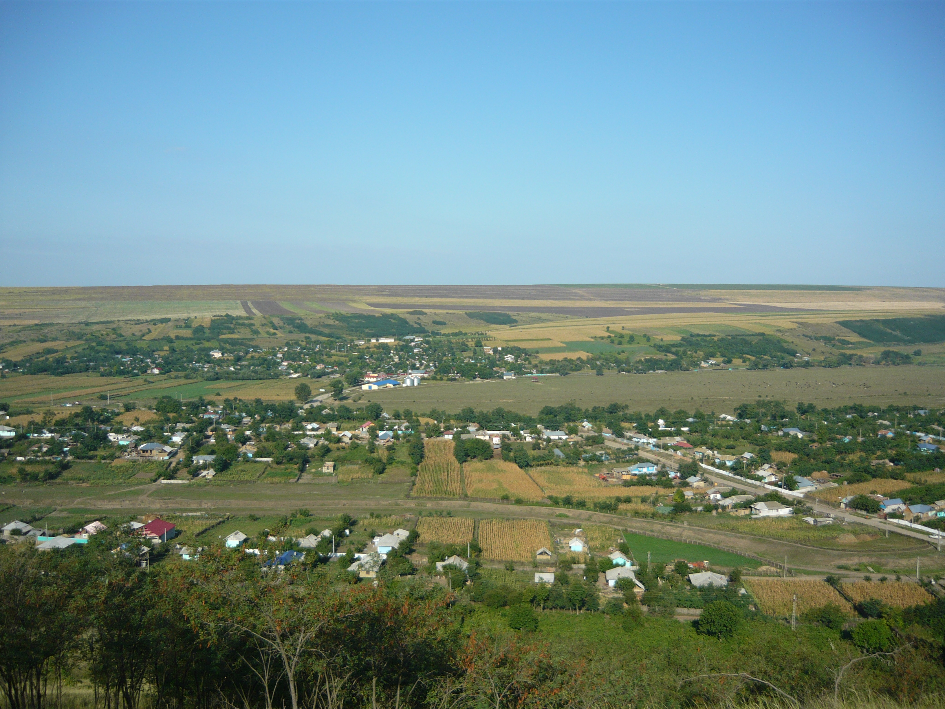 panorama Băcani